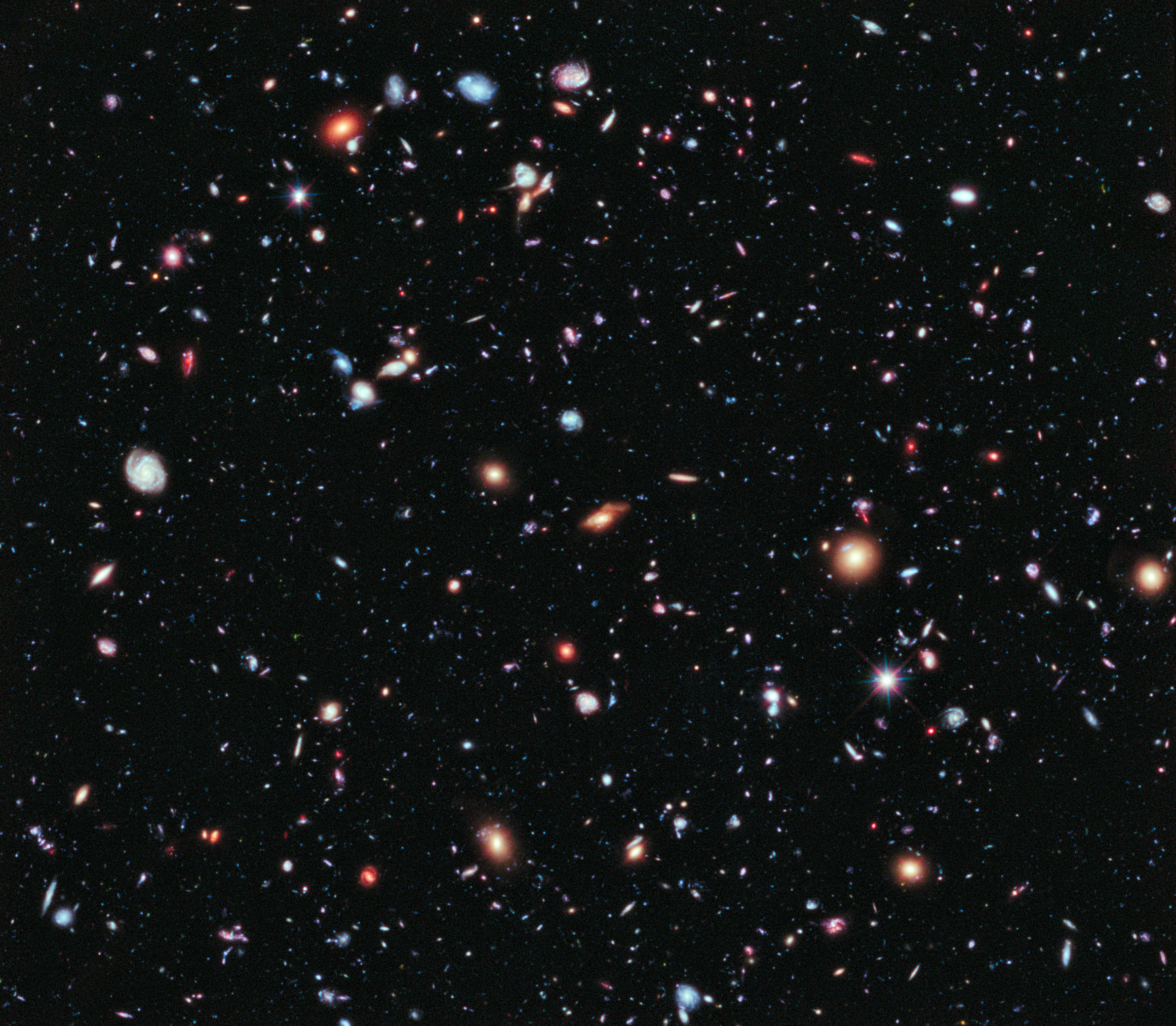 This image, called the Hubble eXtreme Deep Field (XDF), combines Hubble observations taken over the past decade of a small patch of sky in the constellation of Fornax. With a total of over two million seconds of exposure time, it is the deepest image of the Universe ever made, combining data from previous images including the Hubble Ultra Deep Field (taken in 2002 and 2003) and Hubble Ultra Deep Field Infrared (2009). The image covers an area less than a tenth of the width of the full Moon, making it just a 30 millionth of the whole sky. Yet even in this tiny fraction of the sky, the long exposure reveals about 5500 galaxies, some of them so distant that we see them when the Universe was less than 5% of its current age. The Hubble eXtreme Deep Field image contains several of the most distant objects ever identified.